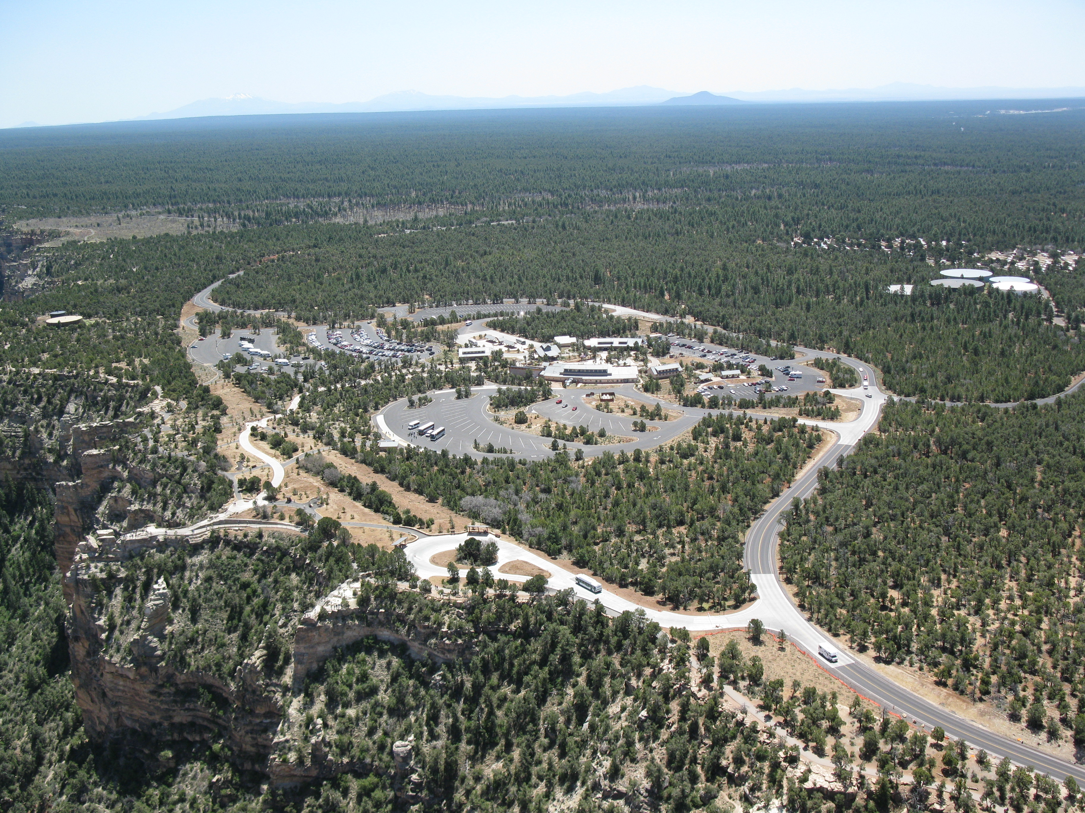 Grand Canyon Visitor Center on the South Rim of the Grand Canyon, and the Coconino Plateau beyond — in Grand Canyon National Park, Arizona. The 2010 Mather Point and Grand Canyon Visitor Center improvements created much needed parking at the Grand Canyon Visitor Center, a vehicle-free visitor experience at Mather Point, a new rim-side amphitheater, and many informational and interpretive improvements to the visitor center plaza. Implementation of this plan has resulted in a vastly improved and more intuitive visitor experience. Credits NPS aerial photo by Grand Canyon Fire and Aviation.